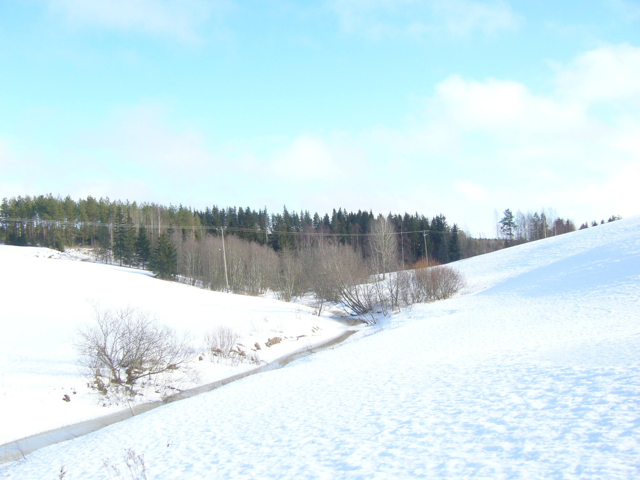 Koskutjoki river in Koskue village, Jalasjärvi, Finland.